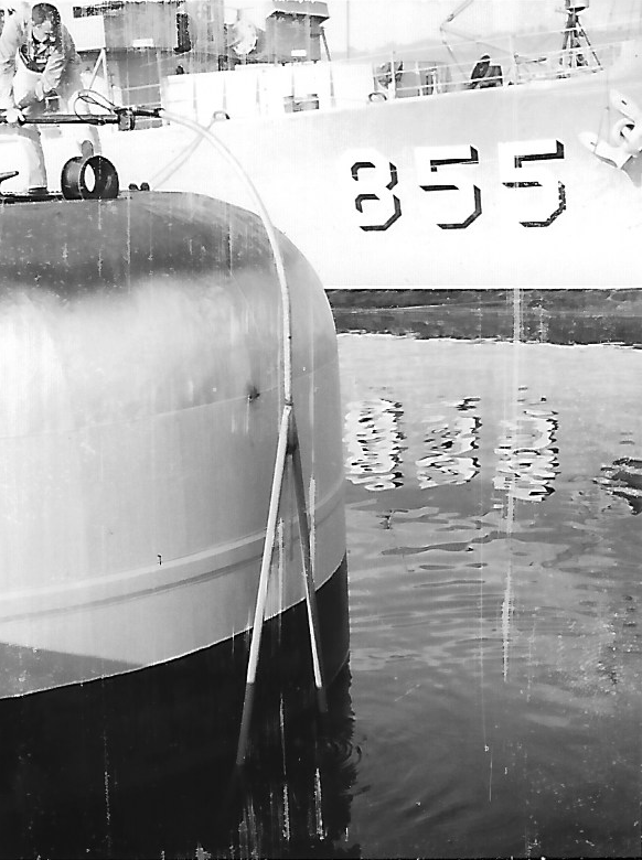 USS Rexburg EPCER-855 at Navy Electronics Laboratory, San Diego, with bow of USS Baya (SS-318) in the foreground.